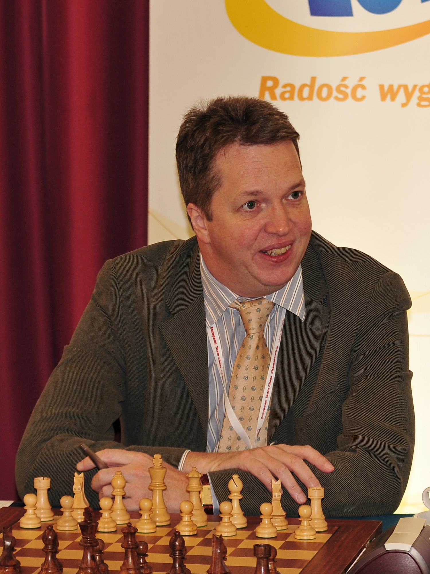 GM Nigel Short, European Chess Team Championship Warsaw 2013